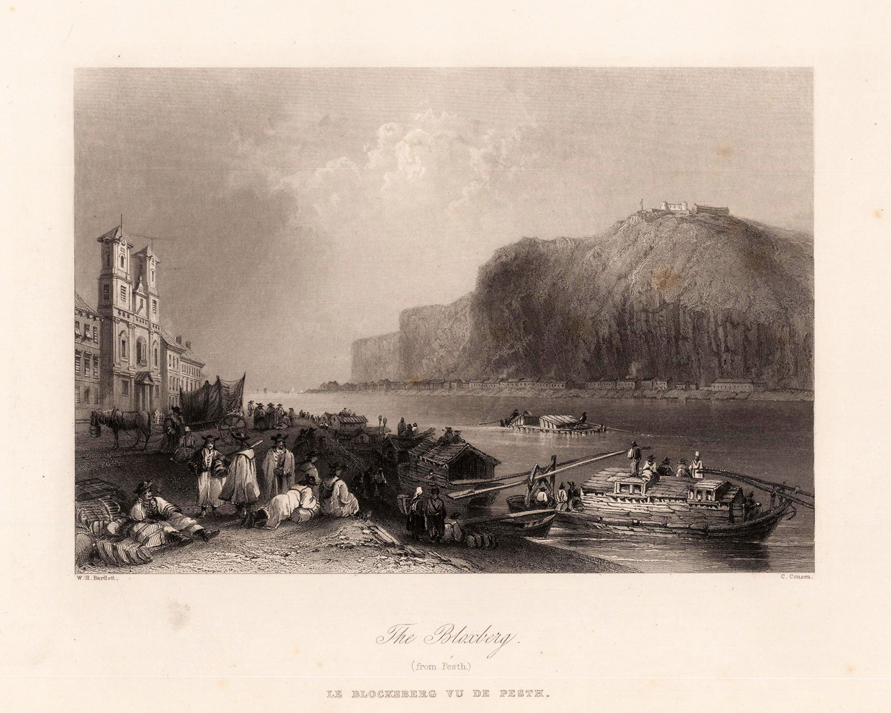 Original steel engraving, engraved by C. Cousen after W.H. Bartlett. Decorative, romantic view from Pesth over the Danube towards the Bloxberg.